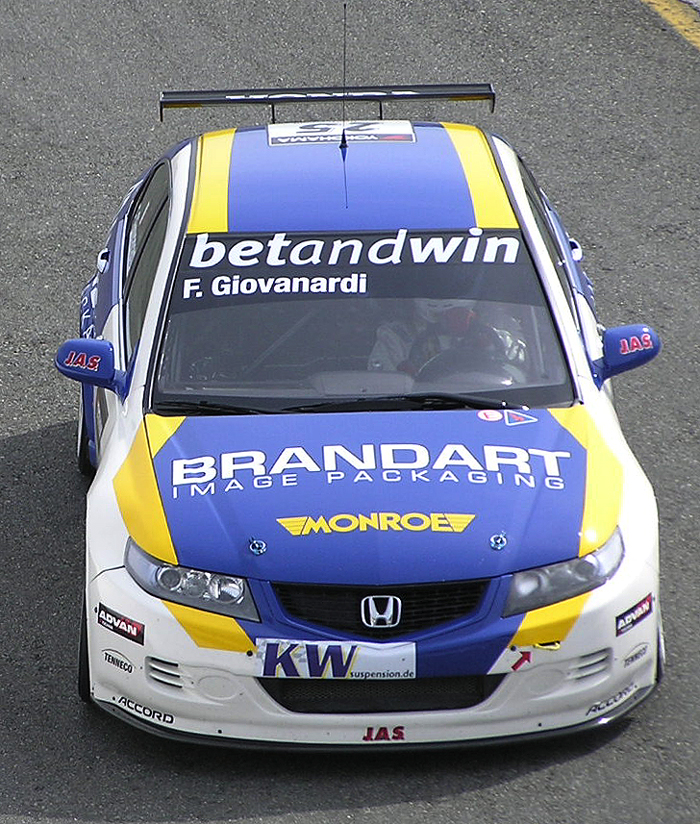 World Touring Car Championship 2006: Fabrizio Giovanardi (JAS Motorsport) - Honda Accord Euro R